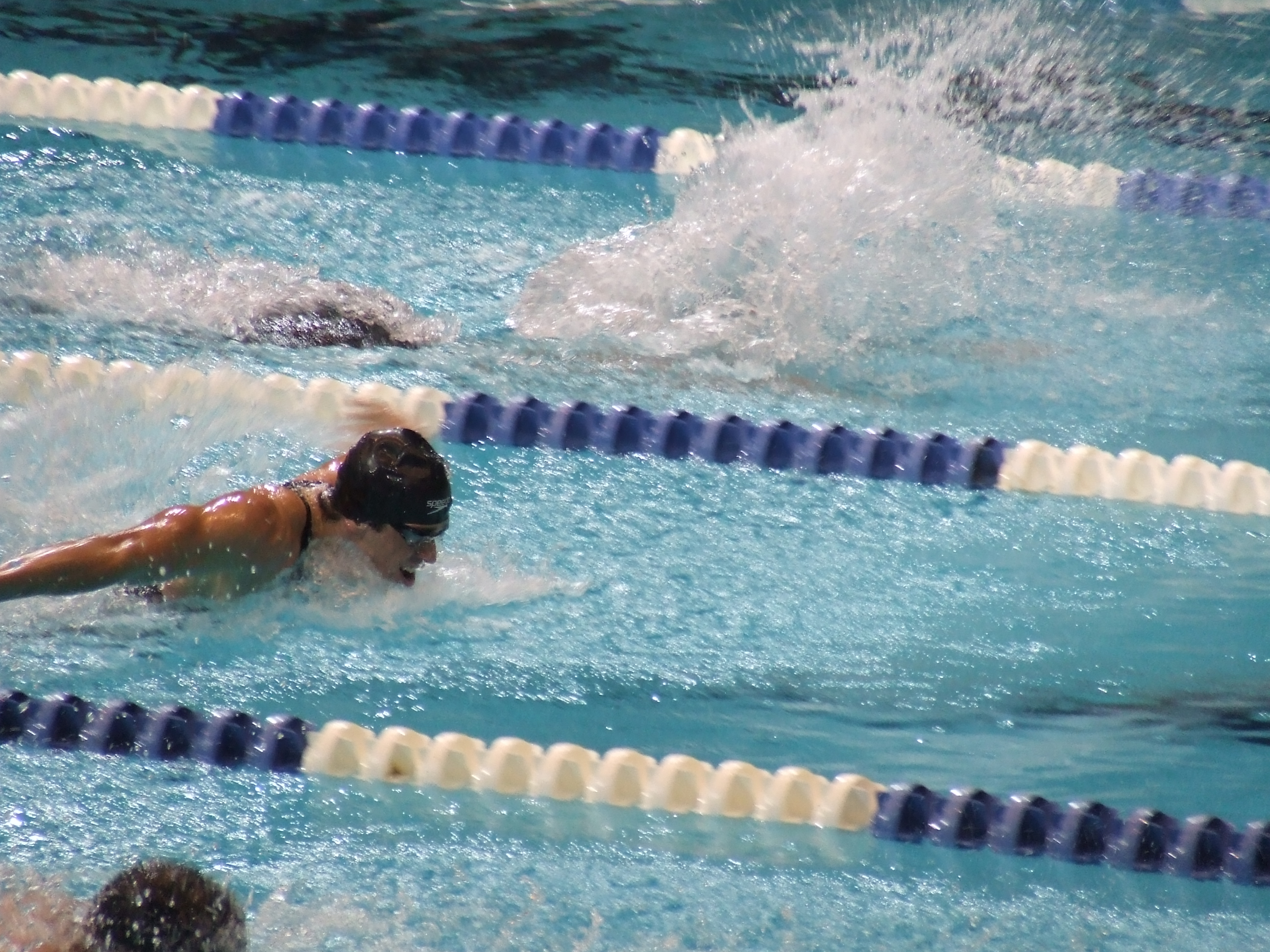 Davis Tarwater swims in a 200 meter butterfly race at the 2009 U.S. National Championships July 8, 2009